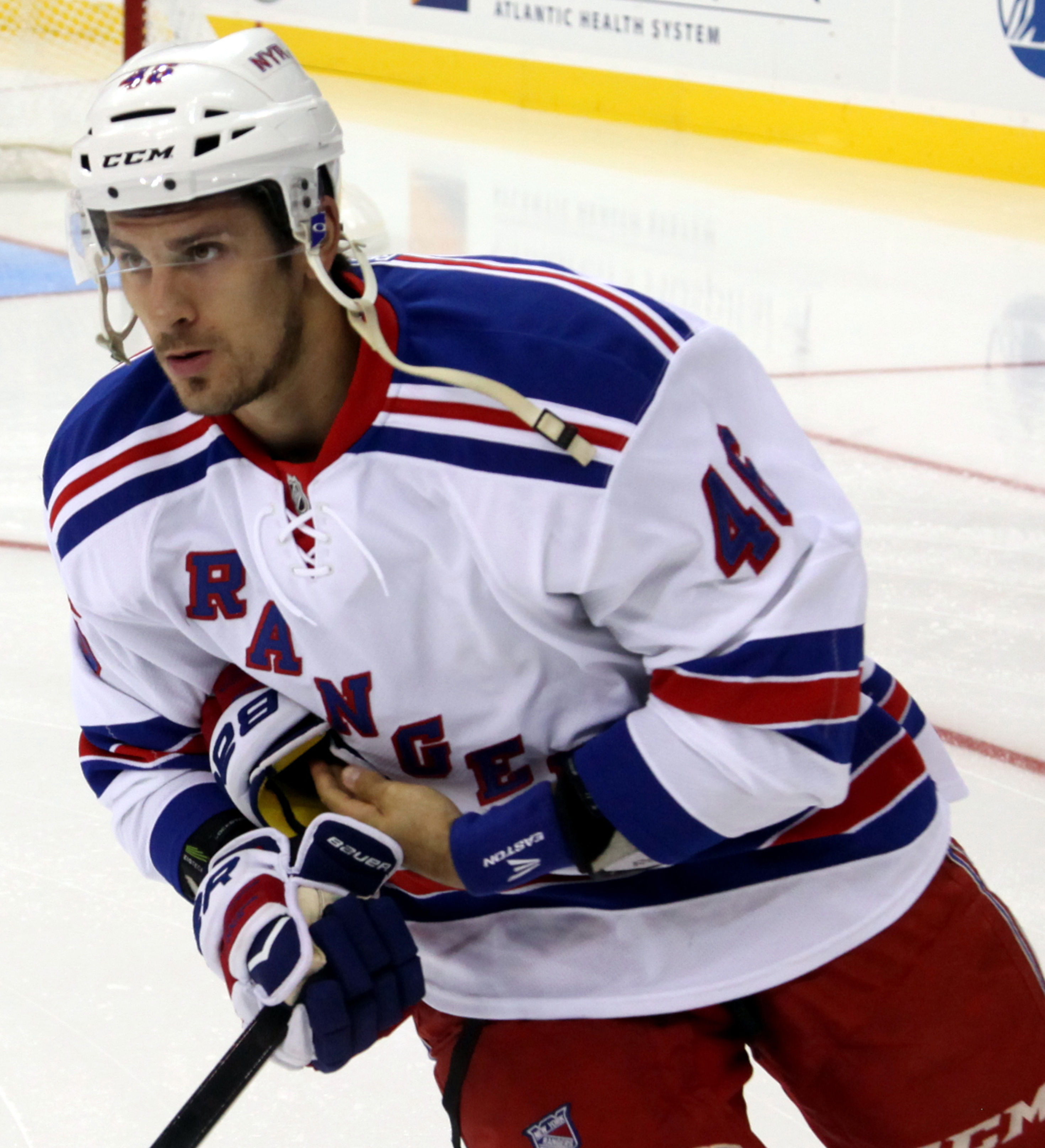 Hrivik in October 2014.